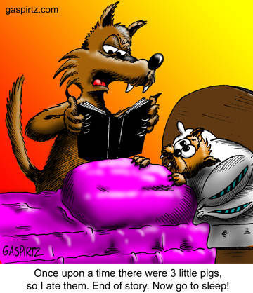 Cartoon of the big bad wolf reading a bedtime story.